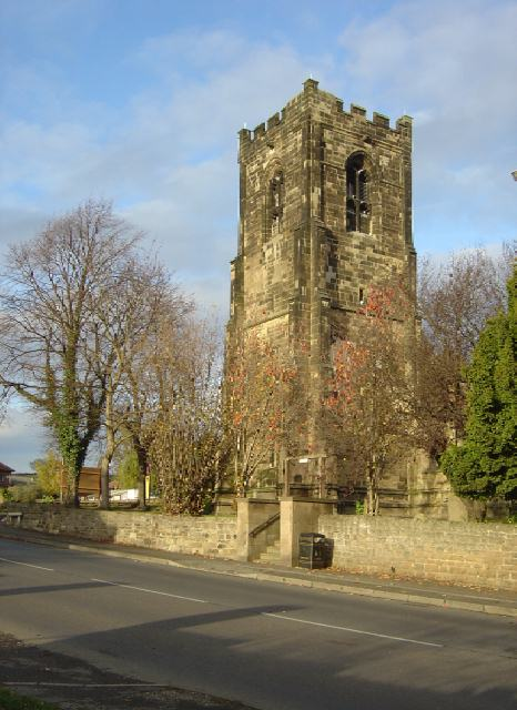 Trowell Church tower This stately tower stands up well above the village. Dedicated to St Helen, the church dates from the 13th to 15th centuries but shows plenty of evidence of the typical Victorian restoration.